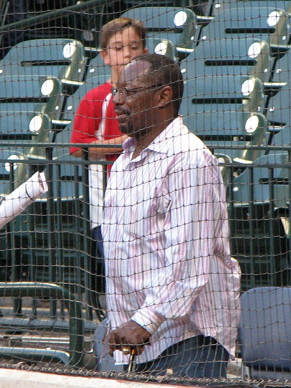 Former Houston Astros player Jimmy Wynn.